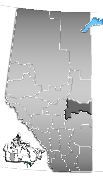 Location of Division No. 10, Alberta